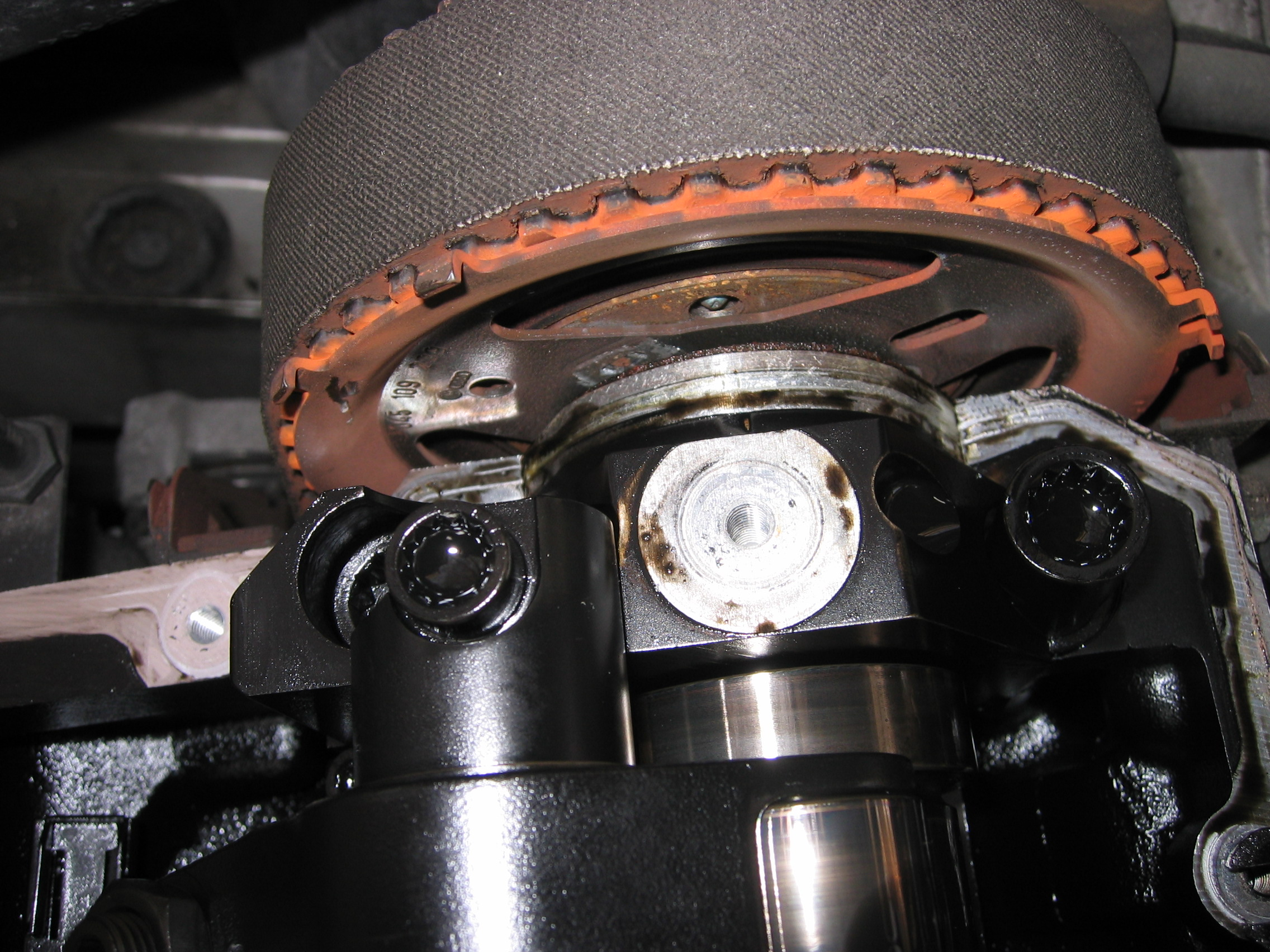 Cramshaft Timing VW Lupo 3L 1.2TDI